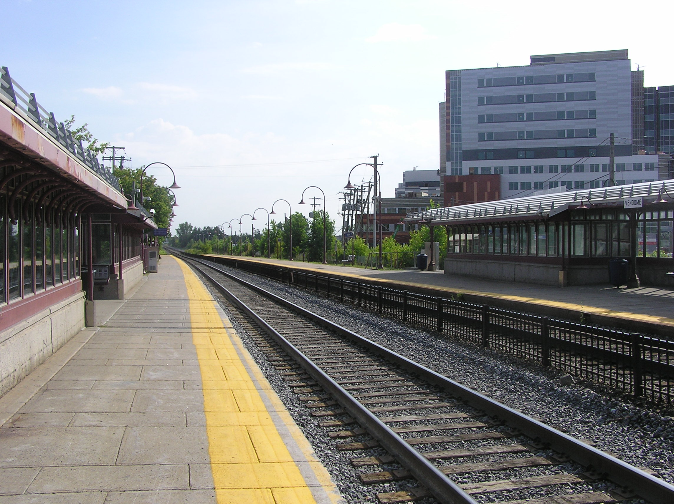 Vendôme AMT Station in Montreal, Canada. Right : Glen site of the McGill University Health Centre